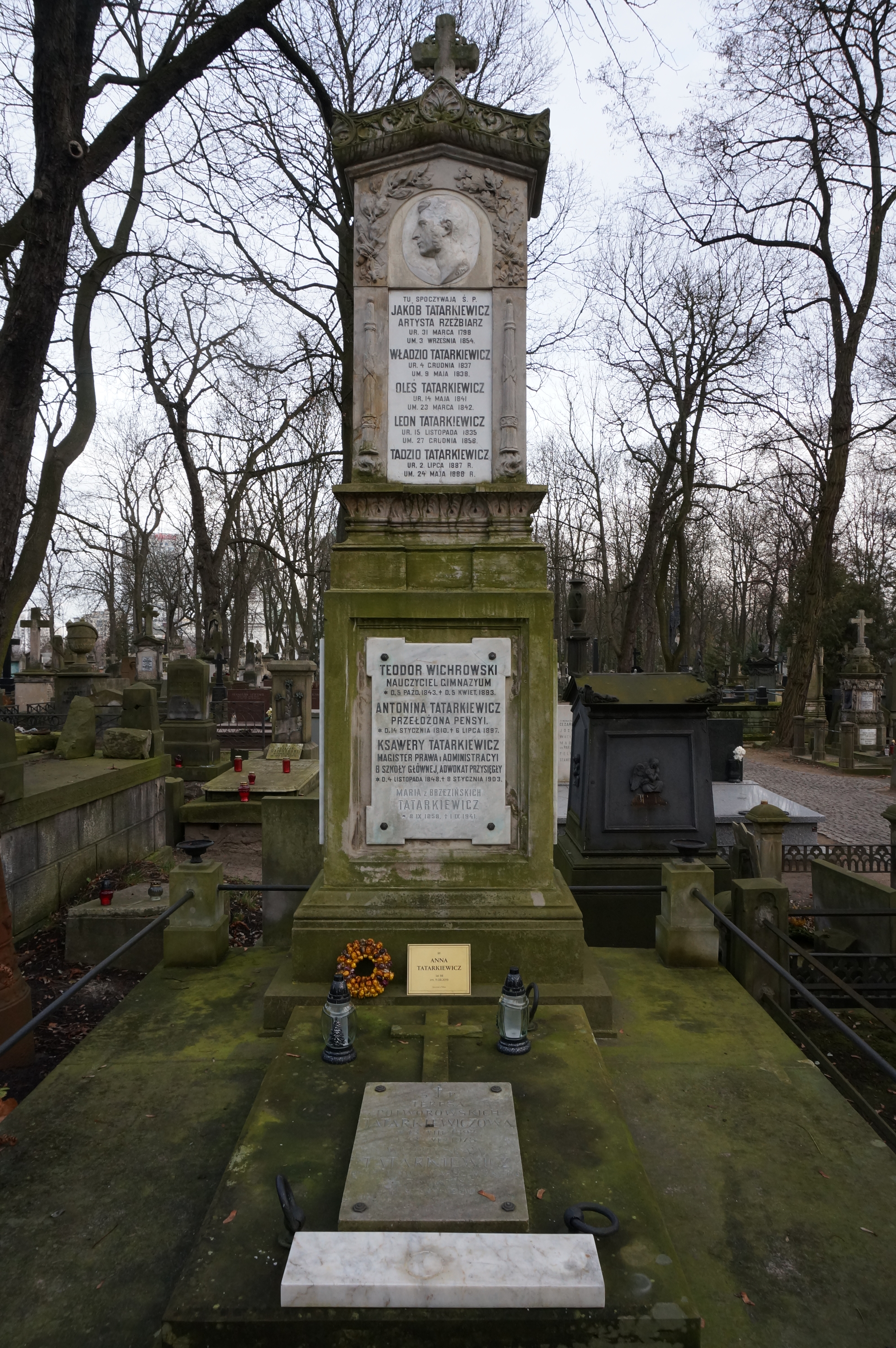 The grave of Władysław Tatarkiewicz at the Powązki Cemetery (section 25, row 4, grave 29, 30)